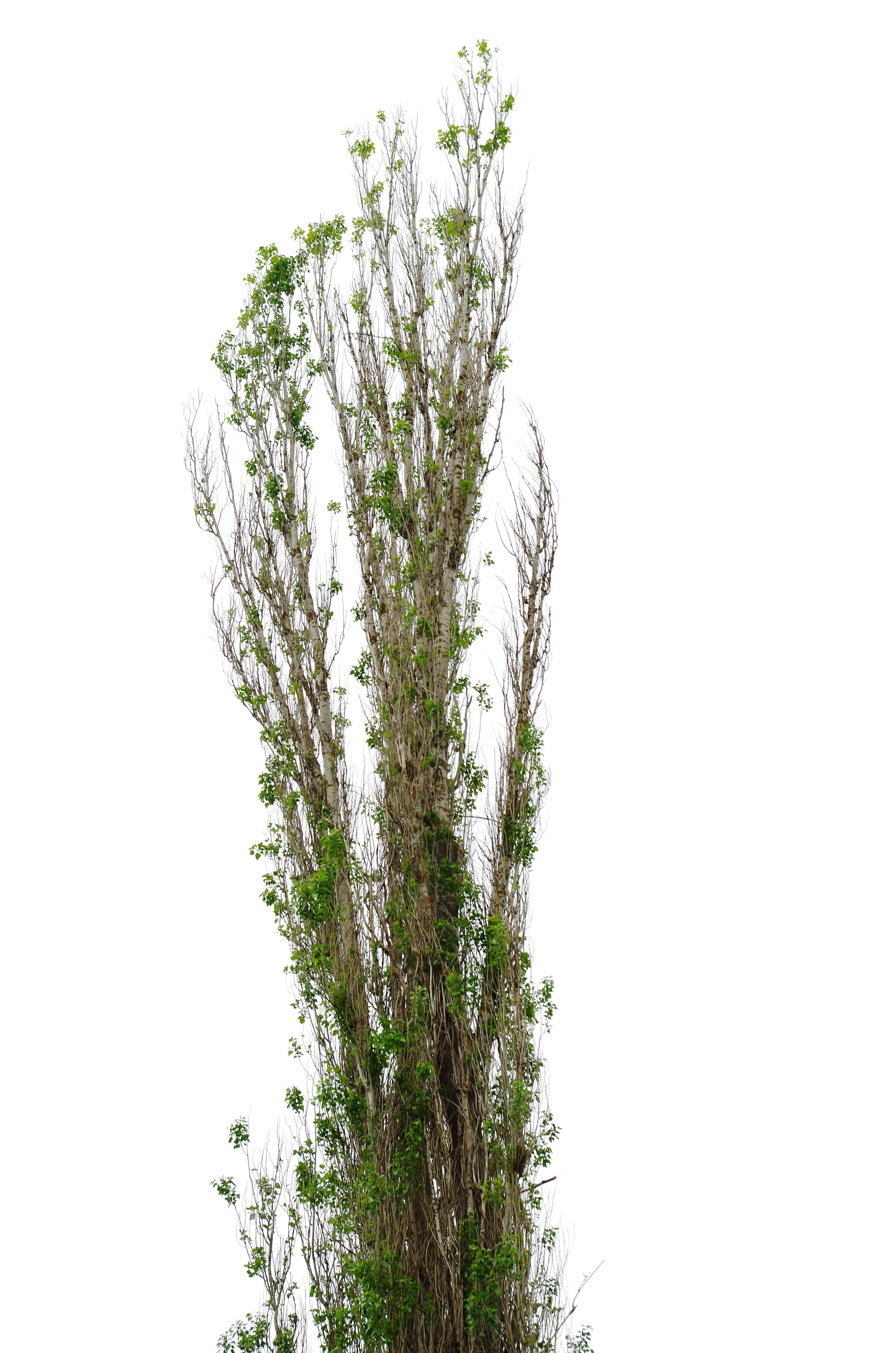 Tree Populus in Kratovo